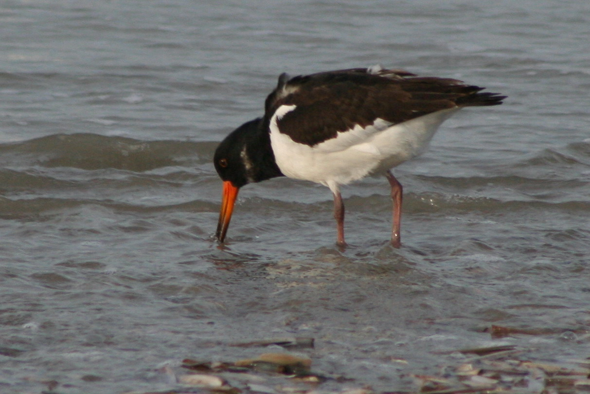 Haematopus ostralegus 29 december 2006 IJmuiden, the Netherlands